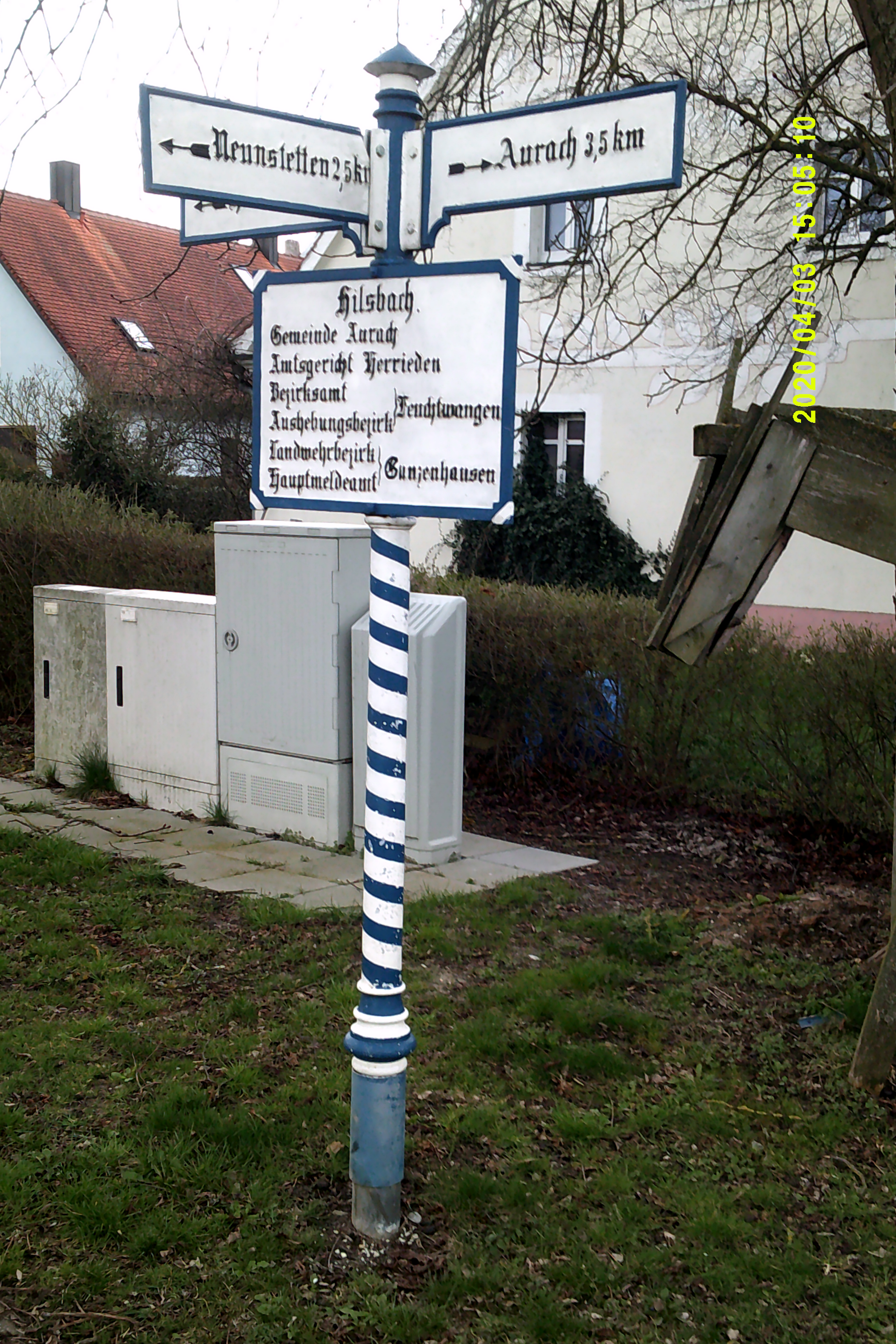 Bayerische Ortstafel Hilsbach, Markt Aurach